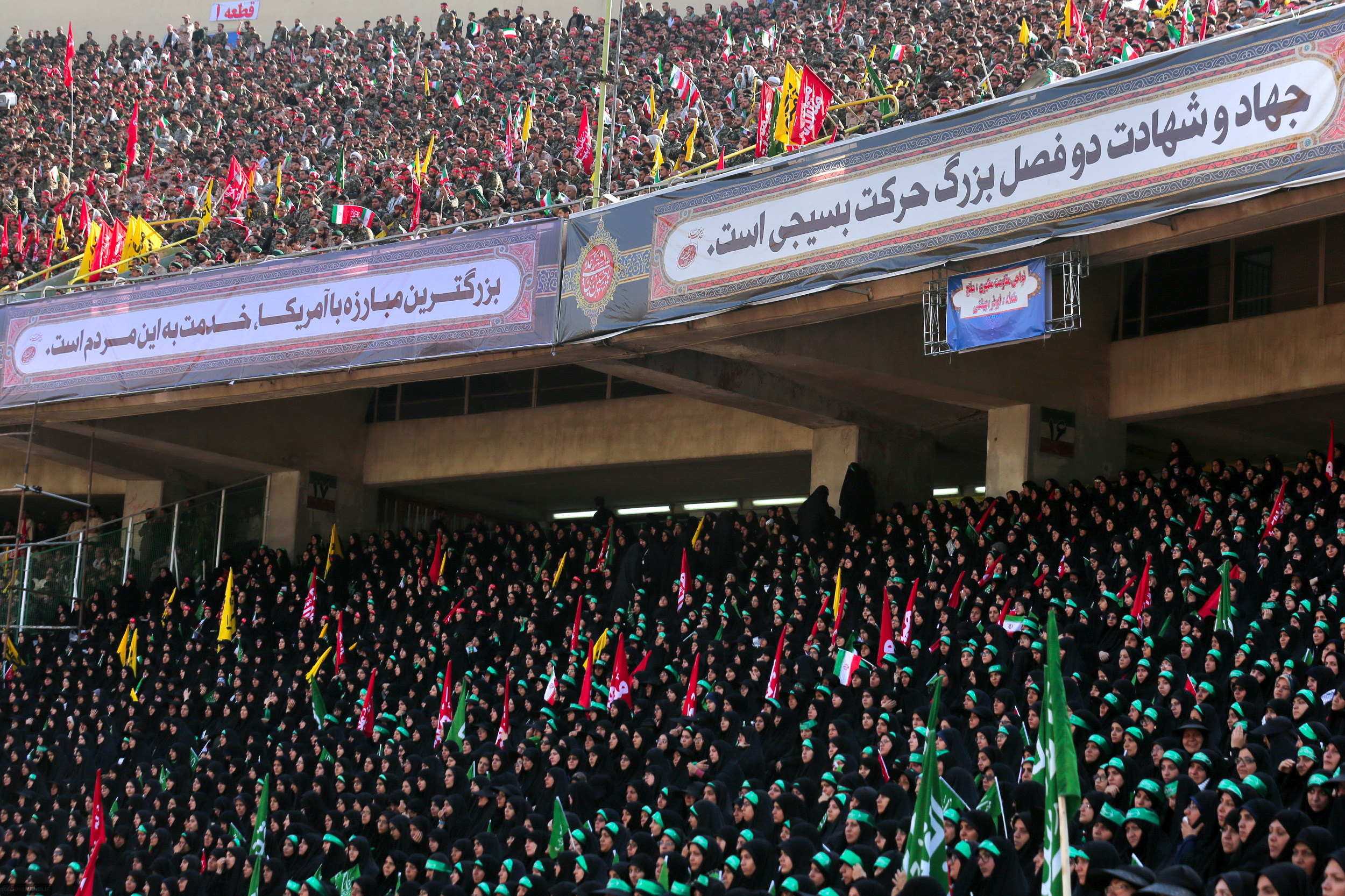 Great Conference of Basij members at Azadi stadium, 4 October 2018